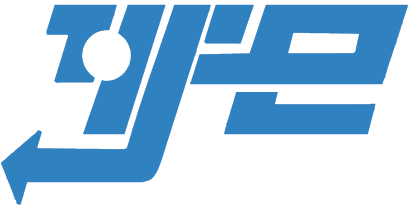 Logo used by Shinui upon its establishment in 1974.